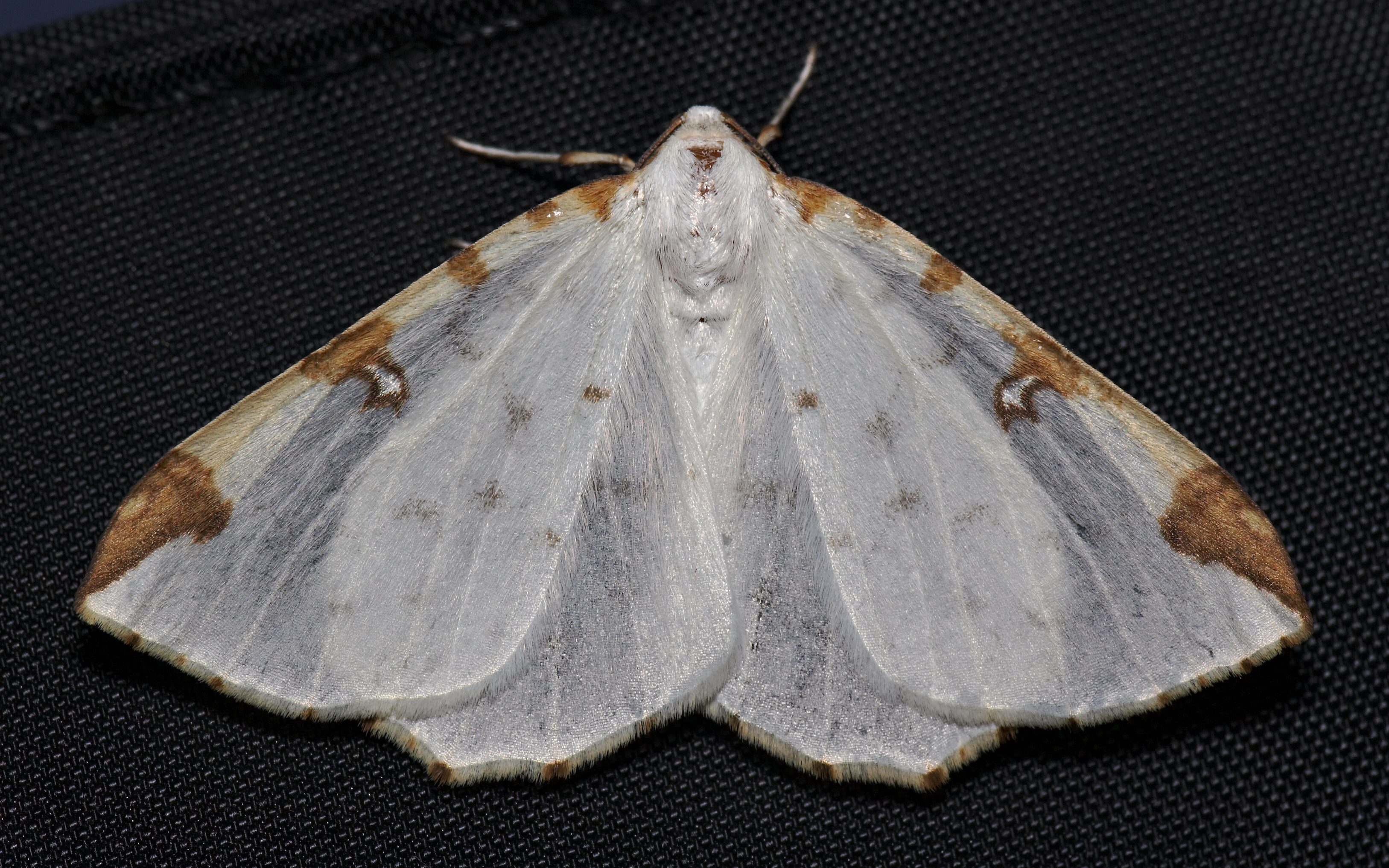 Miscolored Opisthograptis luteolata with white instead of yellow colored wings